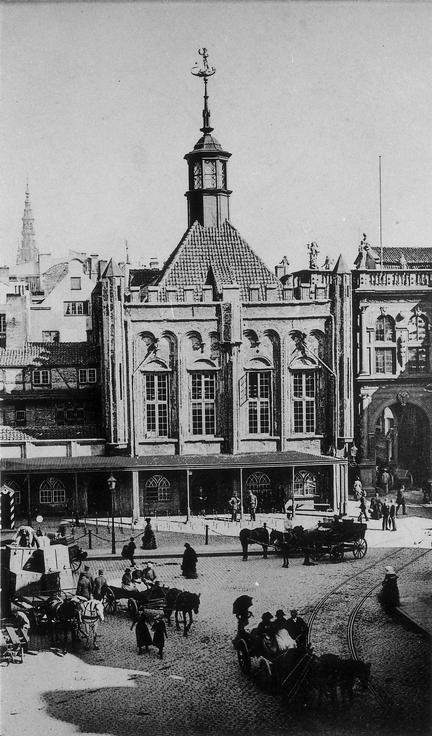 Author was Willi Dreszer. Mansion of the Society of Saint George in Gdańsk. The photo made about 1890. The original is in the Gdańsk Library of Polish Academy of Sciences.